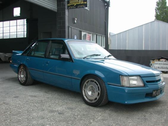 1984–1986 Holden VK Commodore SS Group 3.